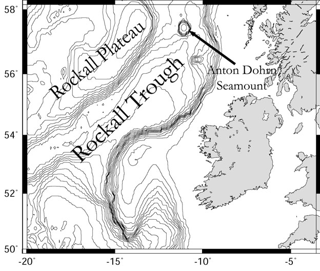 Rockall Bathymetry